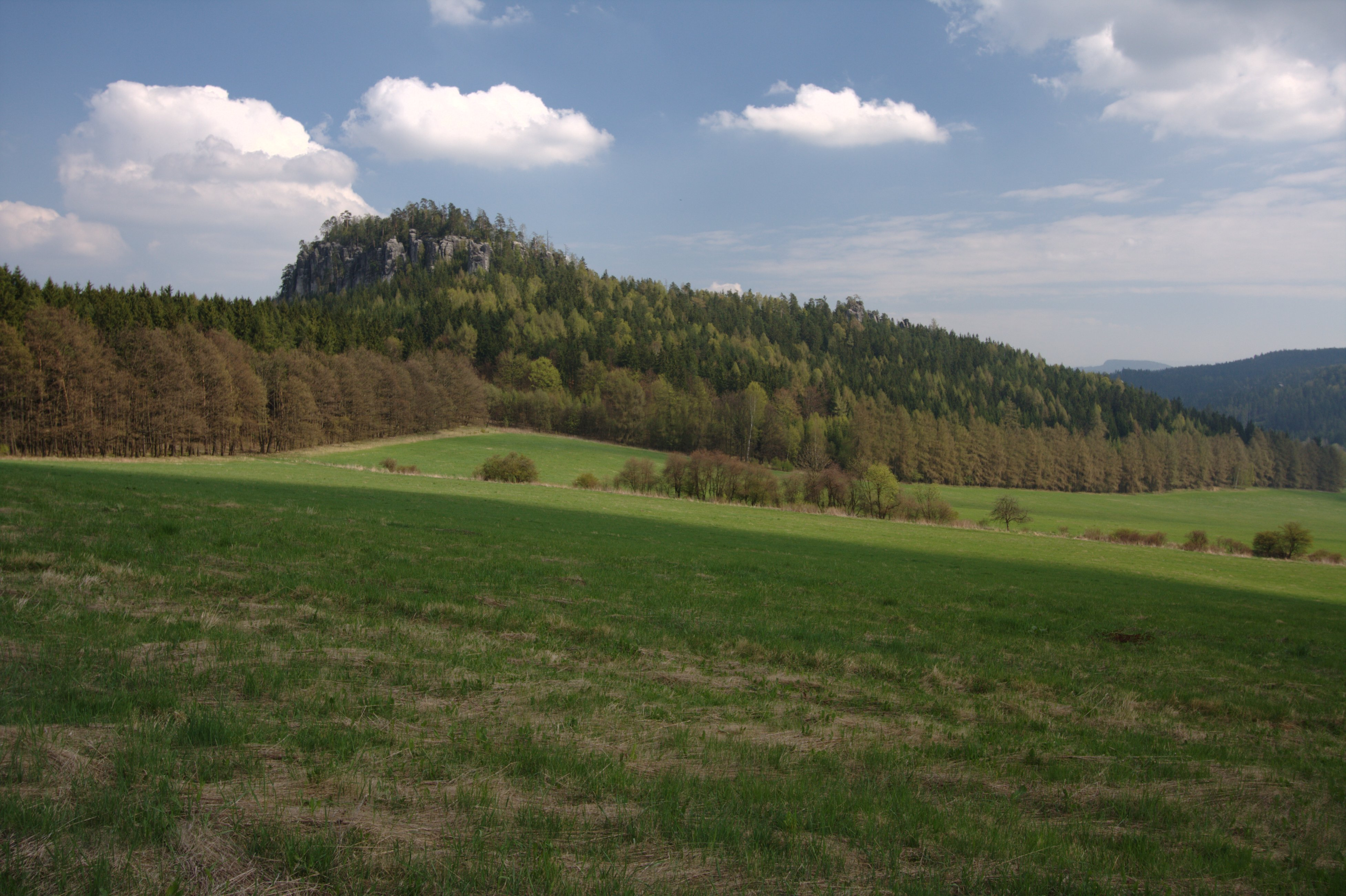 Křížový vrch, Broumovská vrchovina, village Adršpach, Náchod District - from northwest